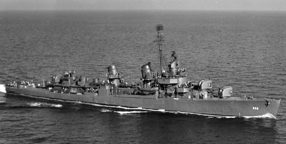 The U.S. Navy destroyer USS Evans (DD-552) in the Gulf of Mexico, 22 December 1943.